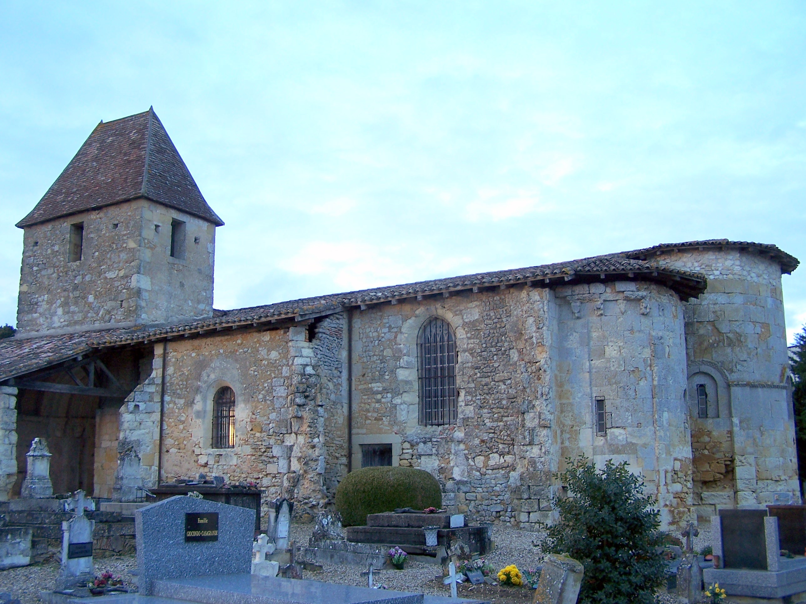 Old church in Cocumont (Lot-et-Garonne, France)